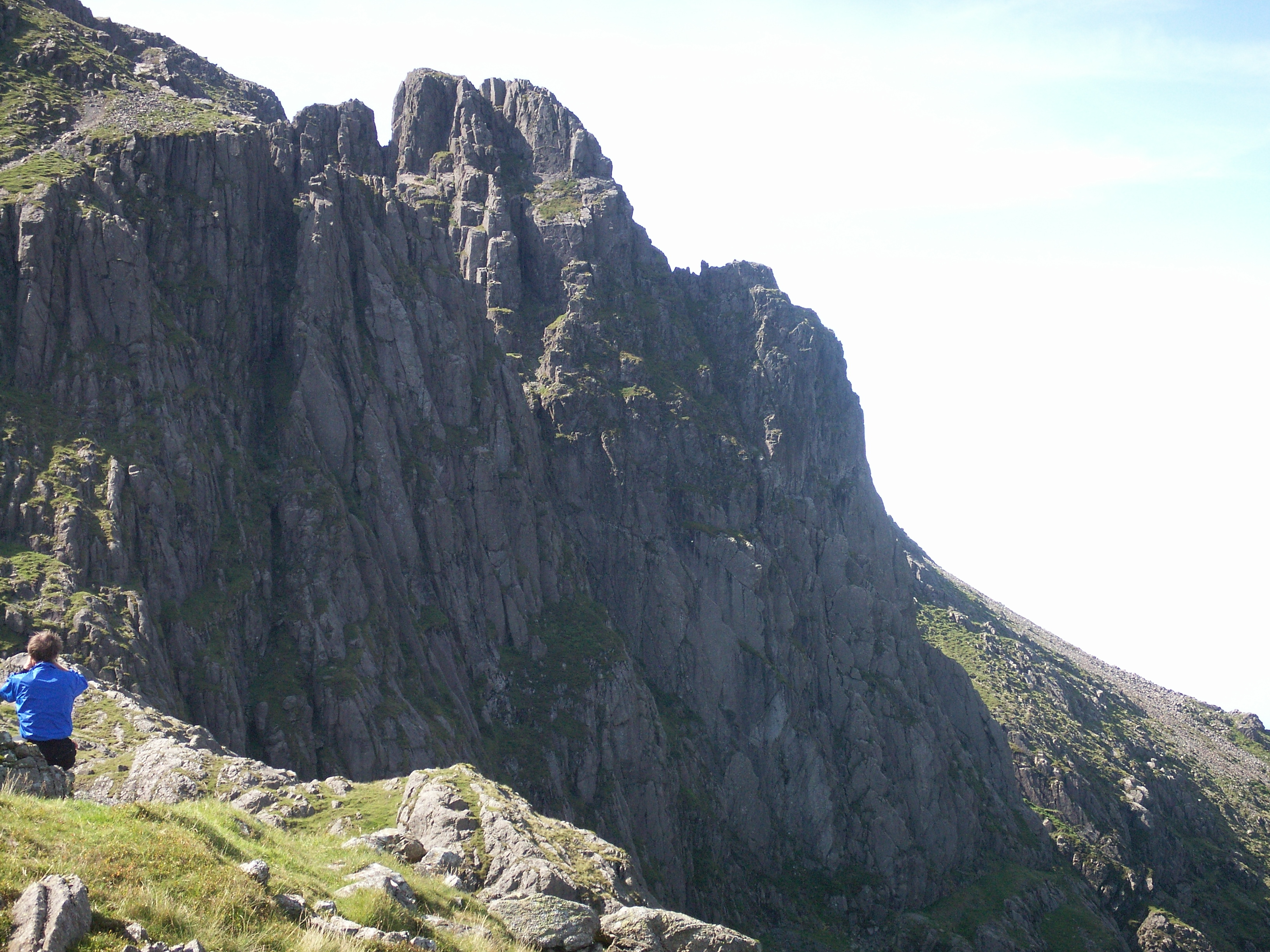 My own photo of Pillar Rock, Pillar mountain, English Lake District. you have to be a hero.